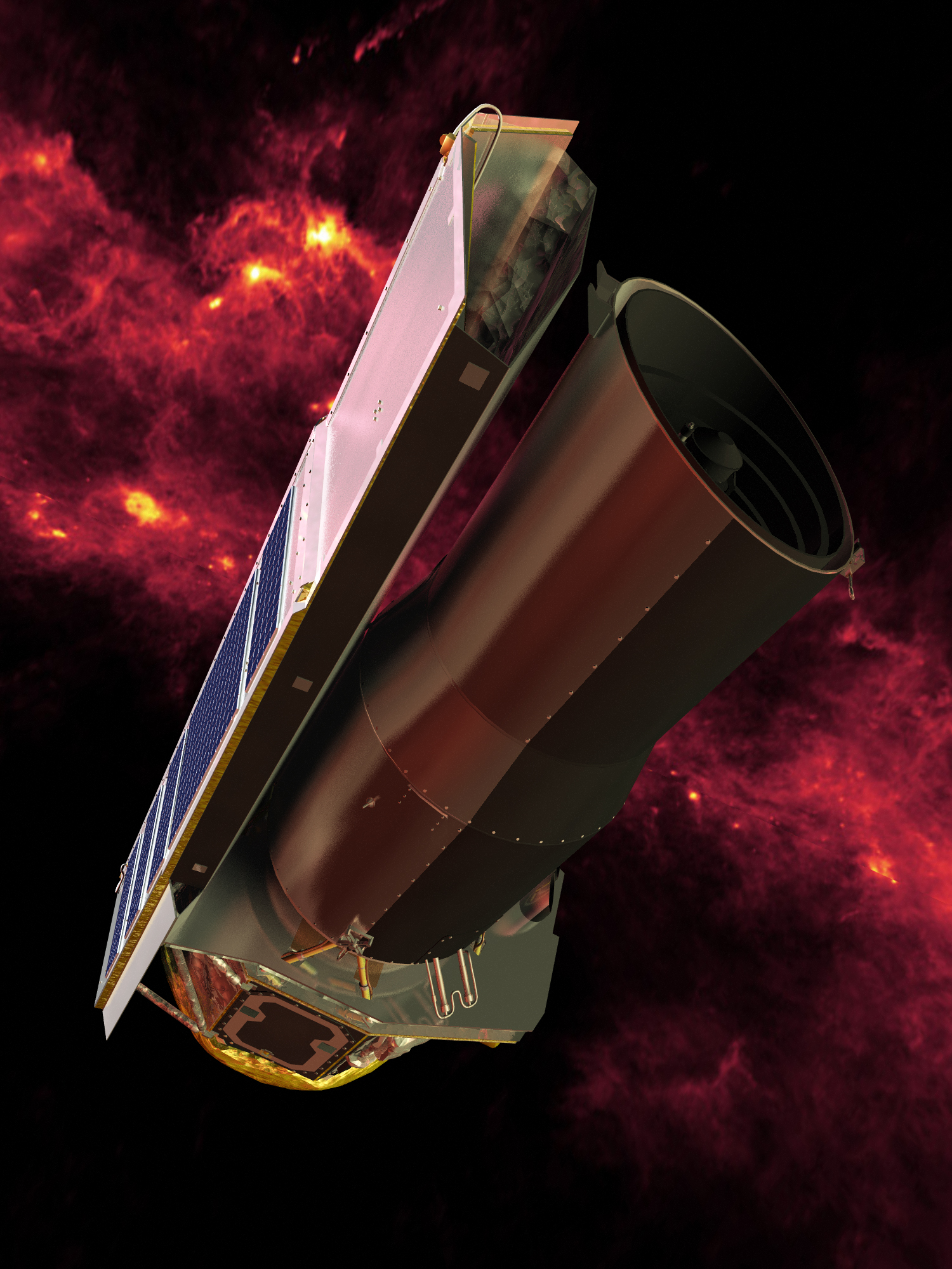 Infrared view of Spitzer against the Milky Way and Orion at 100 microns. Credit line: NASA/JPL-Caltech